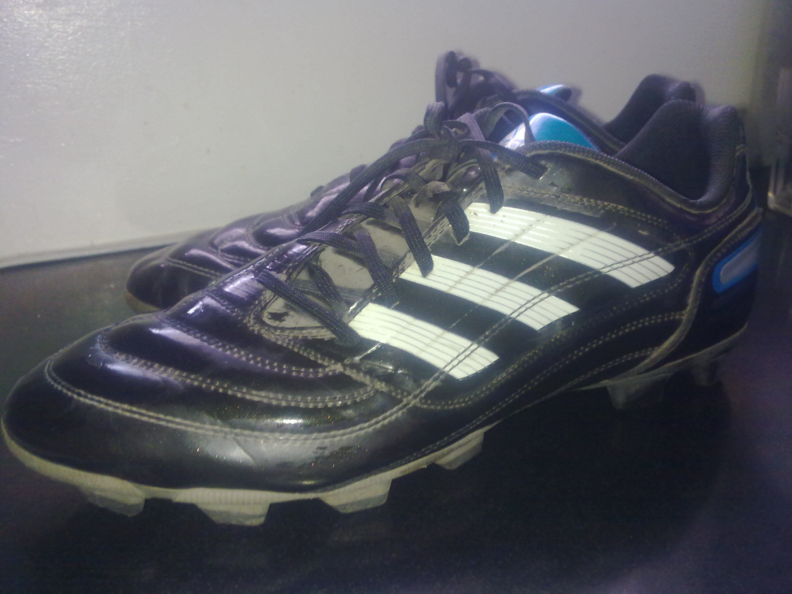 The Adidas Predator is one of the most popular association football cleats in the world. Here, a pair of Adidas Predator X's is shown.